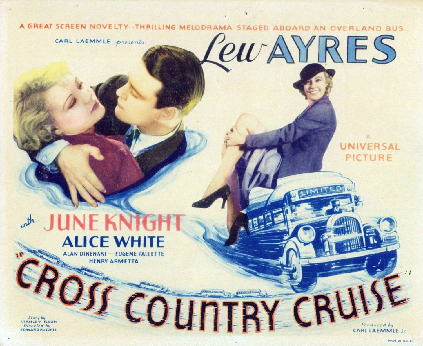 Lobby card for the 1934 film Cross Country Cruise. There are no copyright marks on the card. At bottom right is Made in USA.